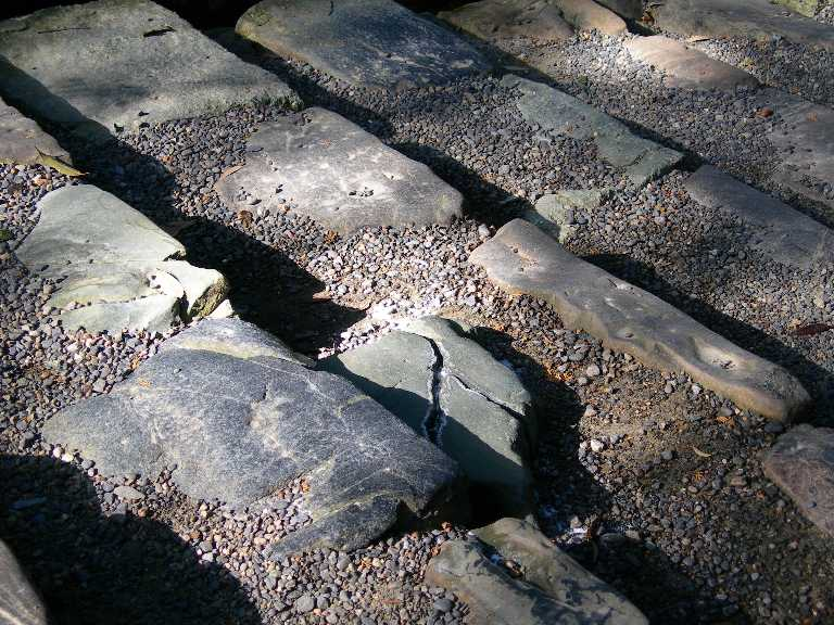 Fumanu-ishi is a stone which anyone must not step on it. It is at stone steps where is between the Betsugu Aramatsuri-no-miya Sanctuary of Kotaijingu(Naiku) and Naiku, Ise city, Mie prefecture, Japan.